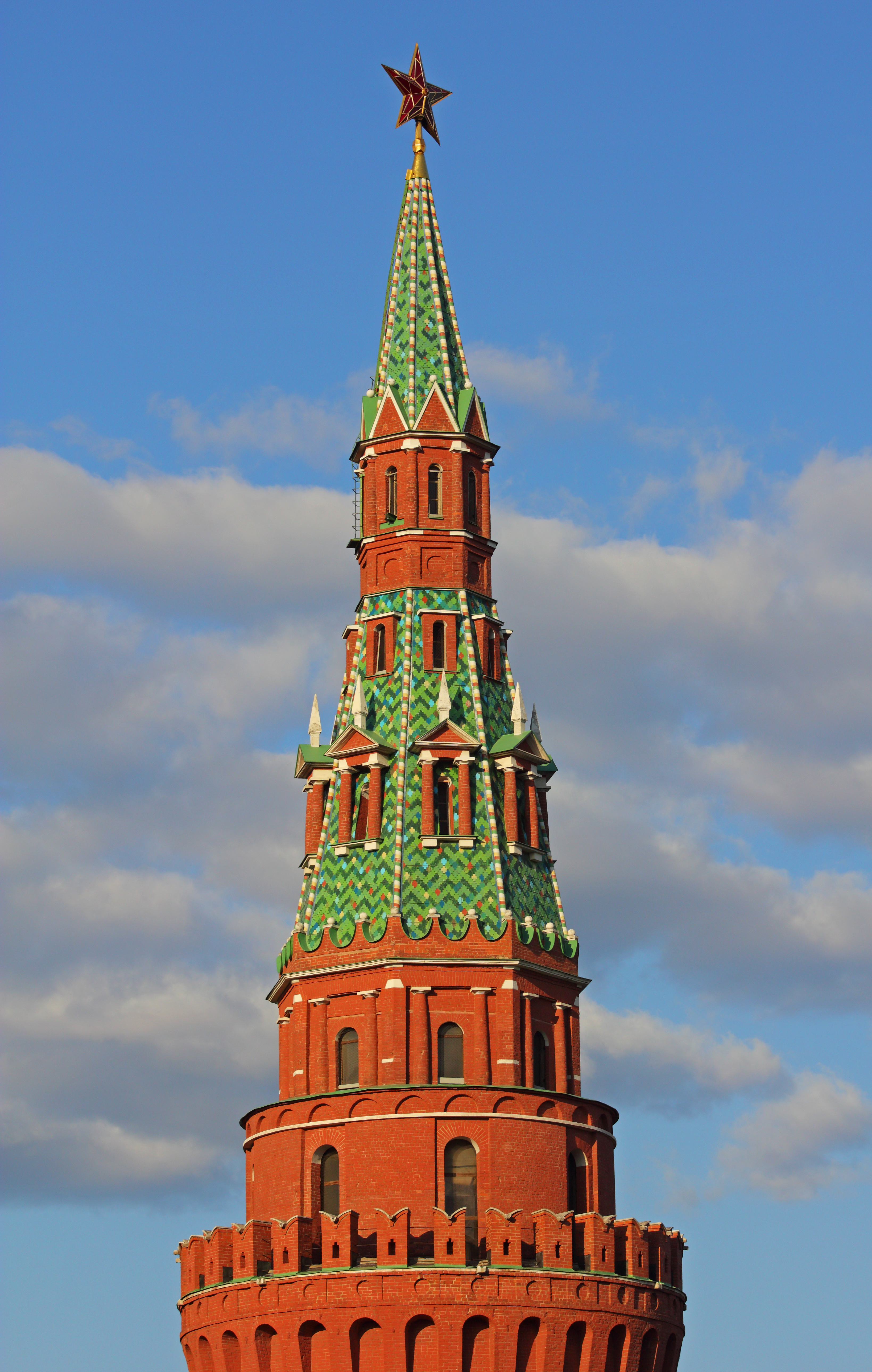 Moscow, Russia. Vodovzvodnaya (Water) Tower of the Moscow Kremlin.